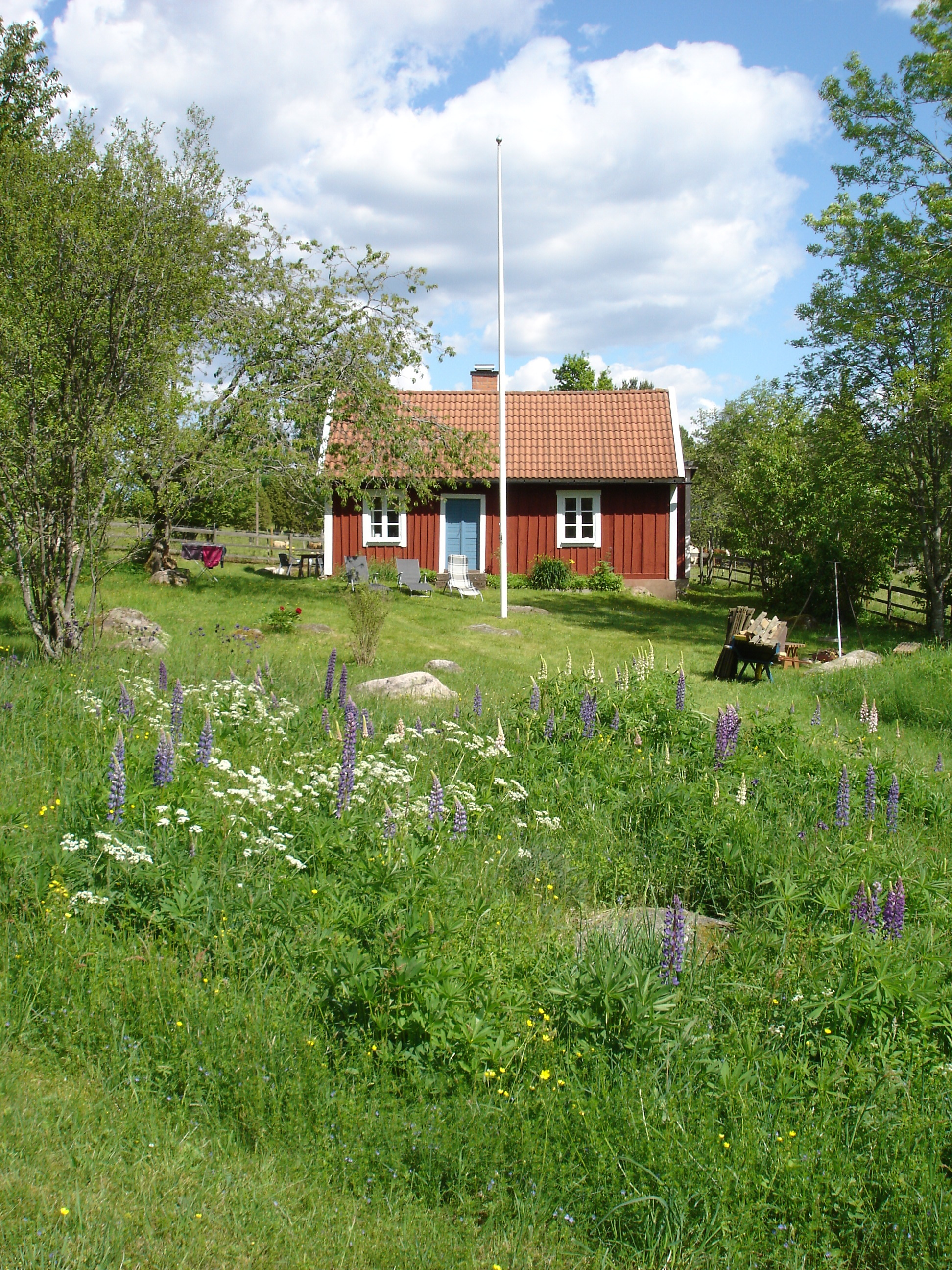 This is the west view of the house Fallhult Nymåla.